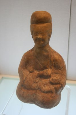 A Chinese Eastern Han Dynasty (25-220 AD) ceramic figurine of a woman nursing a baby, from the Pengshan Tomb of Sichuan.